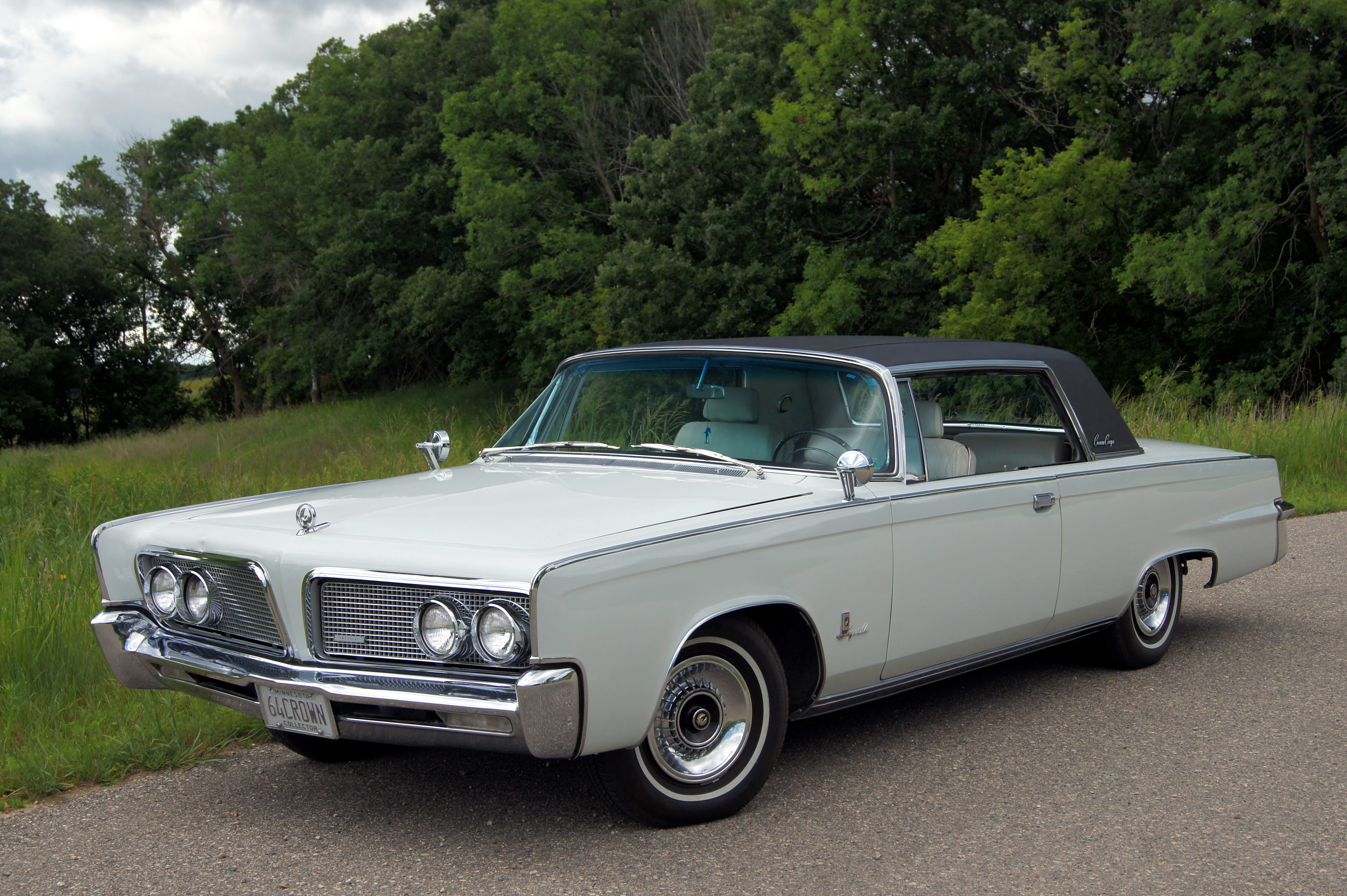 Thousands more of my car pictures available by clicking link below: Check out the Imperial Group by clicking on this link